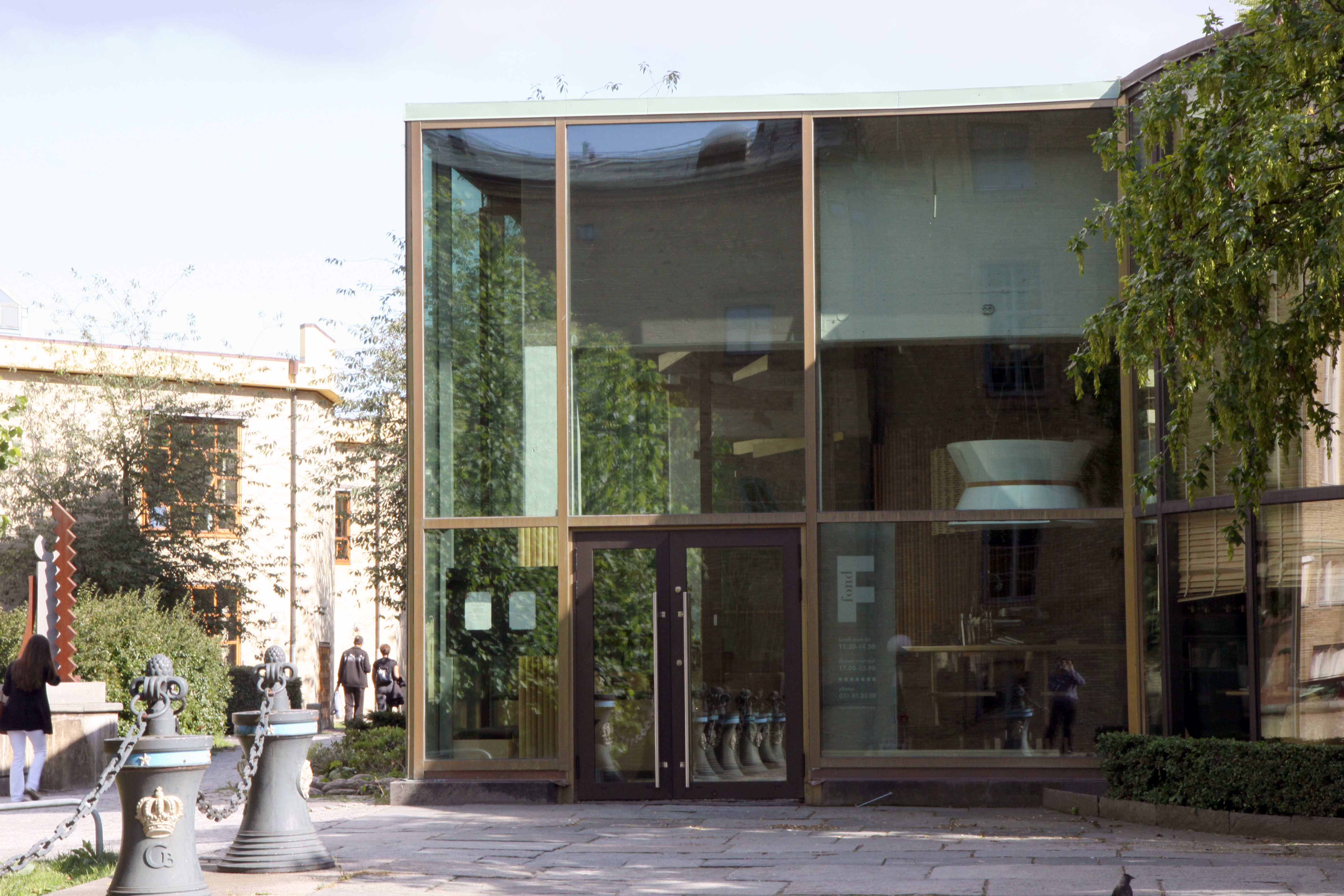 Restaurant Fond in Gothenburg, Sweden is a priced restaurant with a star in Guide Michelin